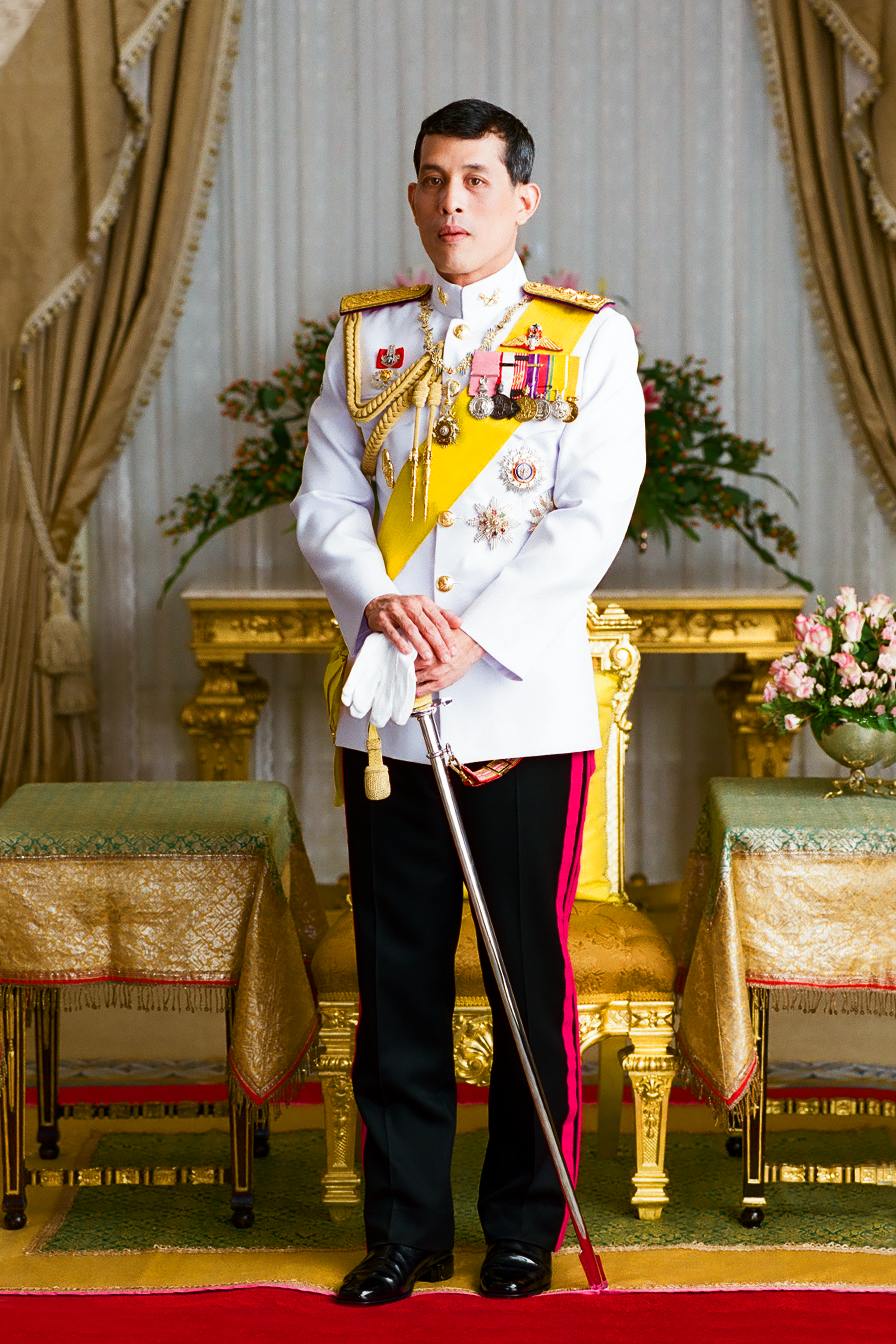 King Maha Vajiralongkorn, Rama X of Thailand.